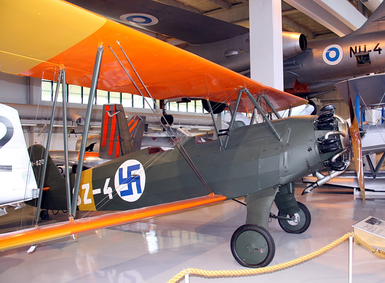 Focke-Wulf FW 44 Stieglitz (SZ-4) in Aviation Museum of Central Finland.